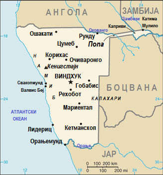 Map of Namibia in Macedonian.